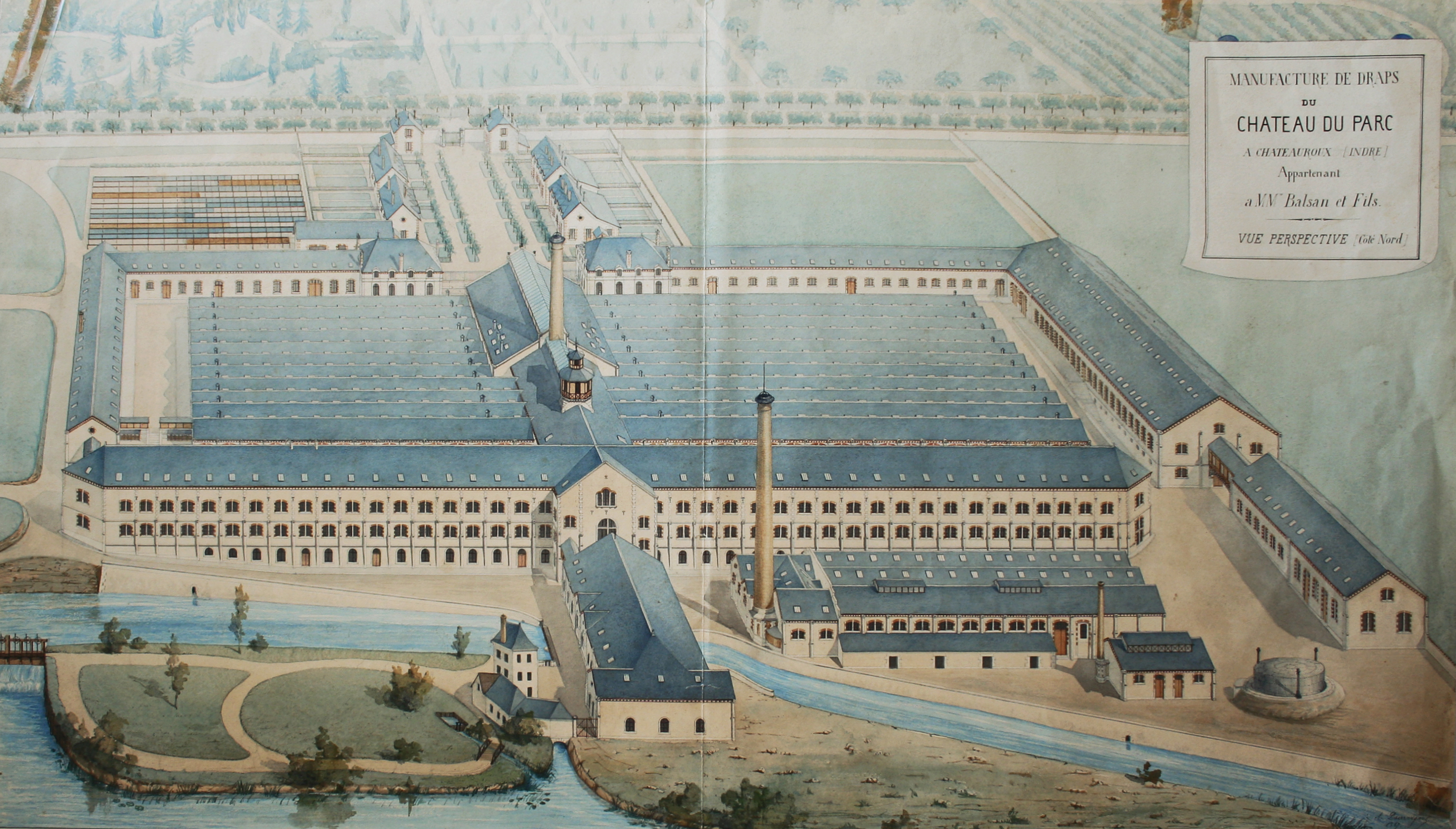 Manufacture Balsan Plan Alfred Dauvergne -1862-Nord